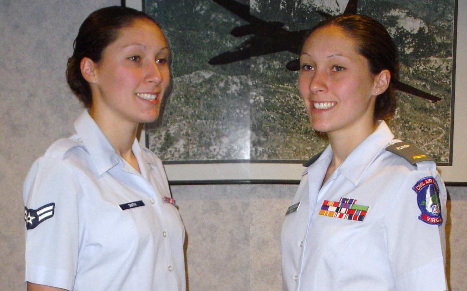 Airman 1st Class Jillian Smith wears two uniforms. As an active duty Air Force member (left) she is a 27th Intelligence Support Squadron communications journeyman. In her off duty time she volunteers with the Civil Air Patrol and is a second lieutenant (right).